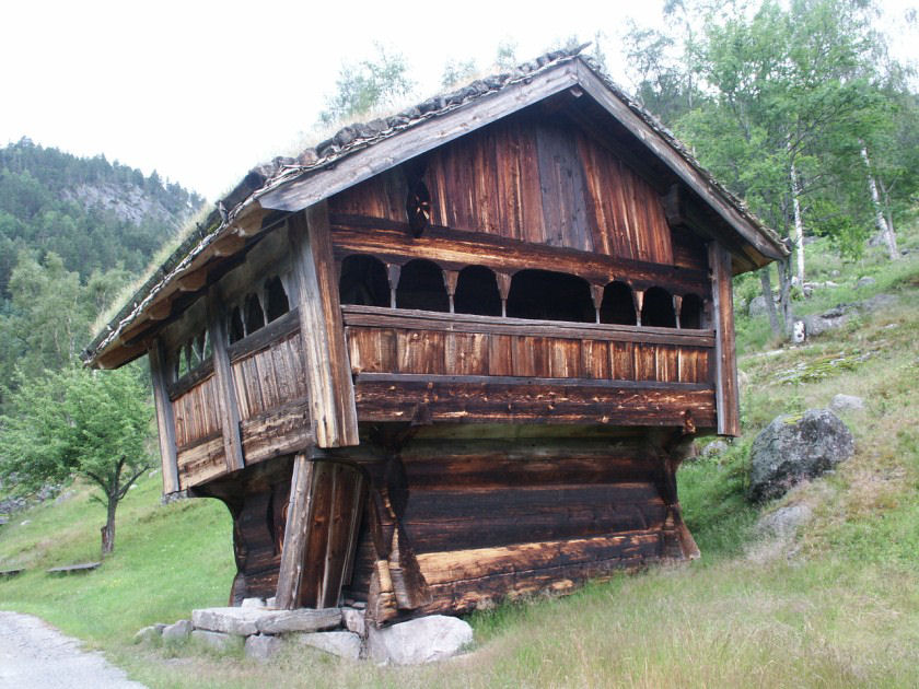 Rygnestadloftet, Rygnestadtunet, Valle municipality, Setesdal, Aust-Agder county, Norway. Part of Setesdalsmuseet